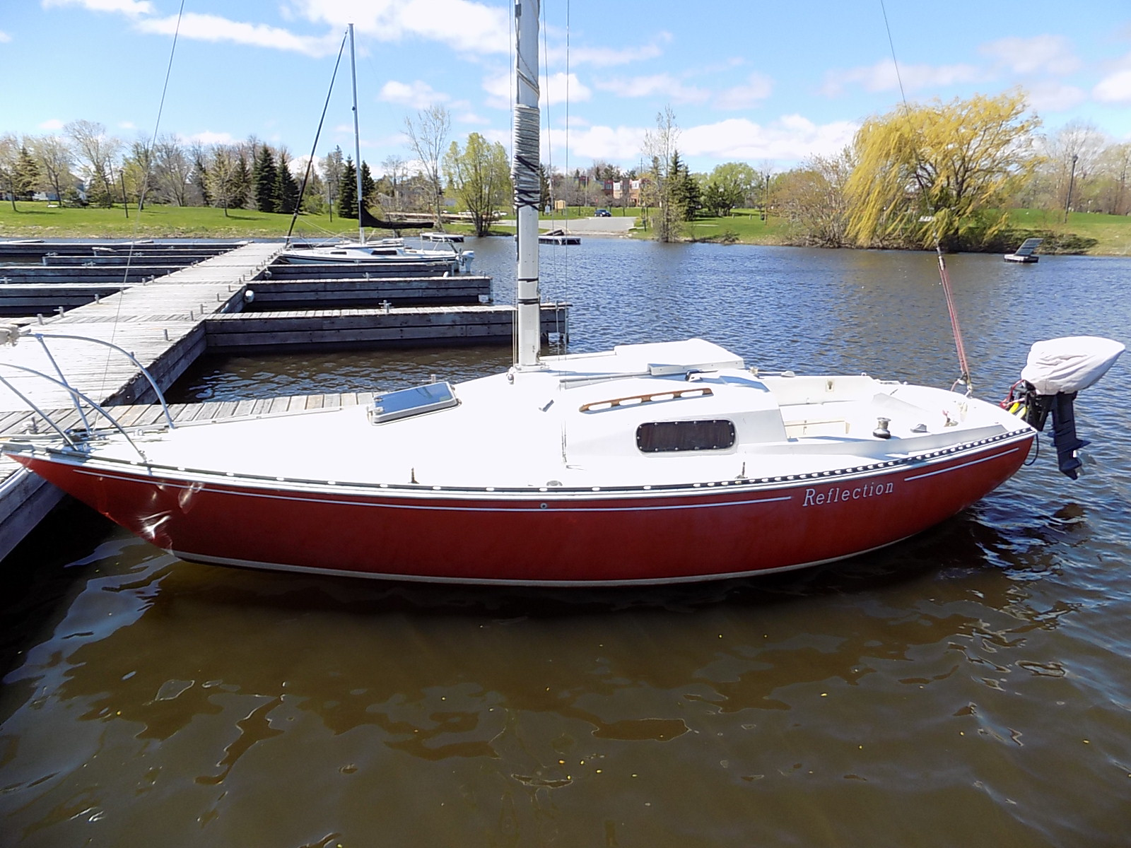 A Mirage 24 sailboat named Reflection